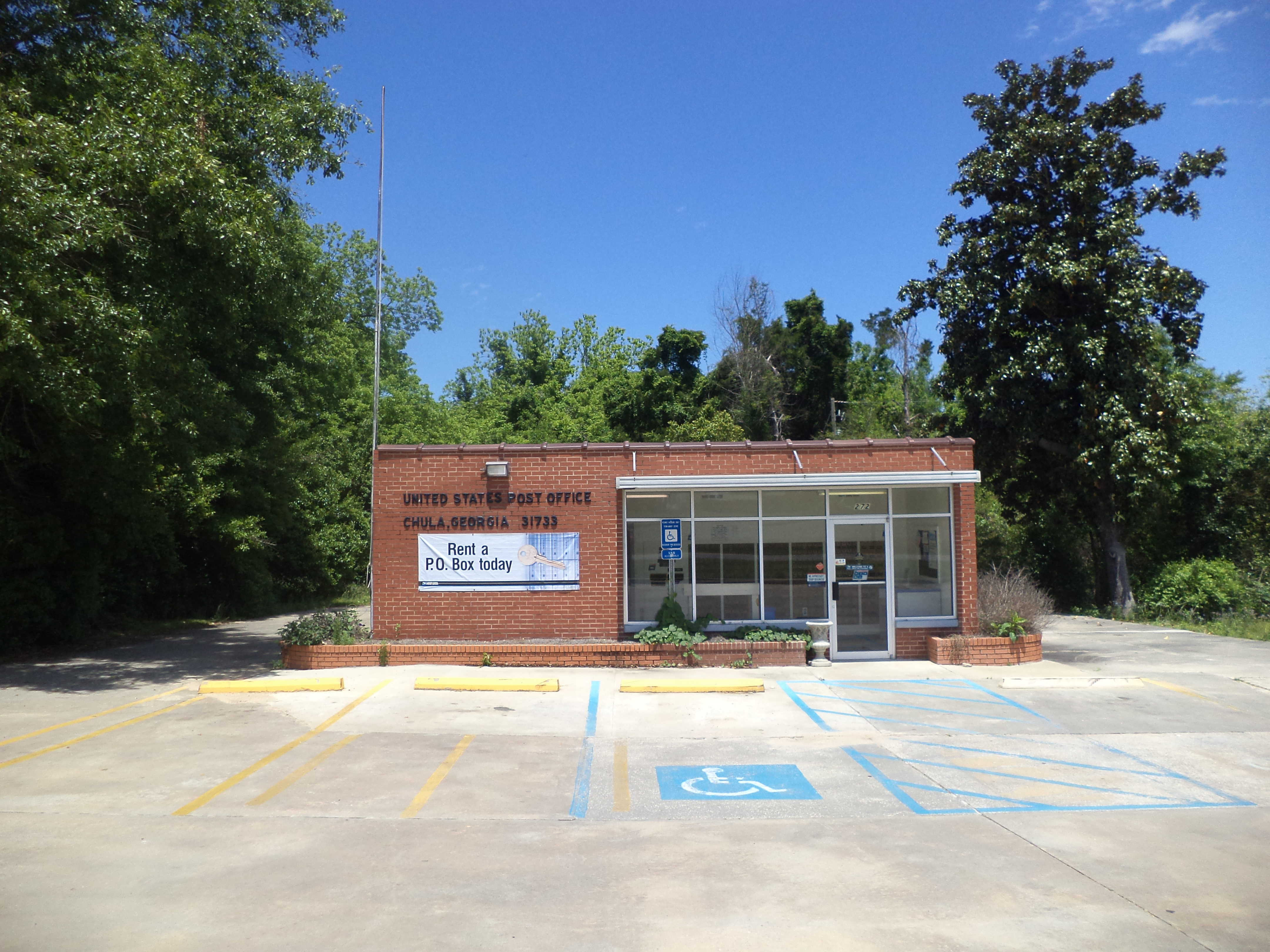 Chula Post Office, 3272 Us Highway 41 N, Chula, Tift County, Georgia